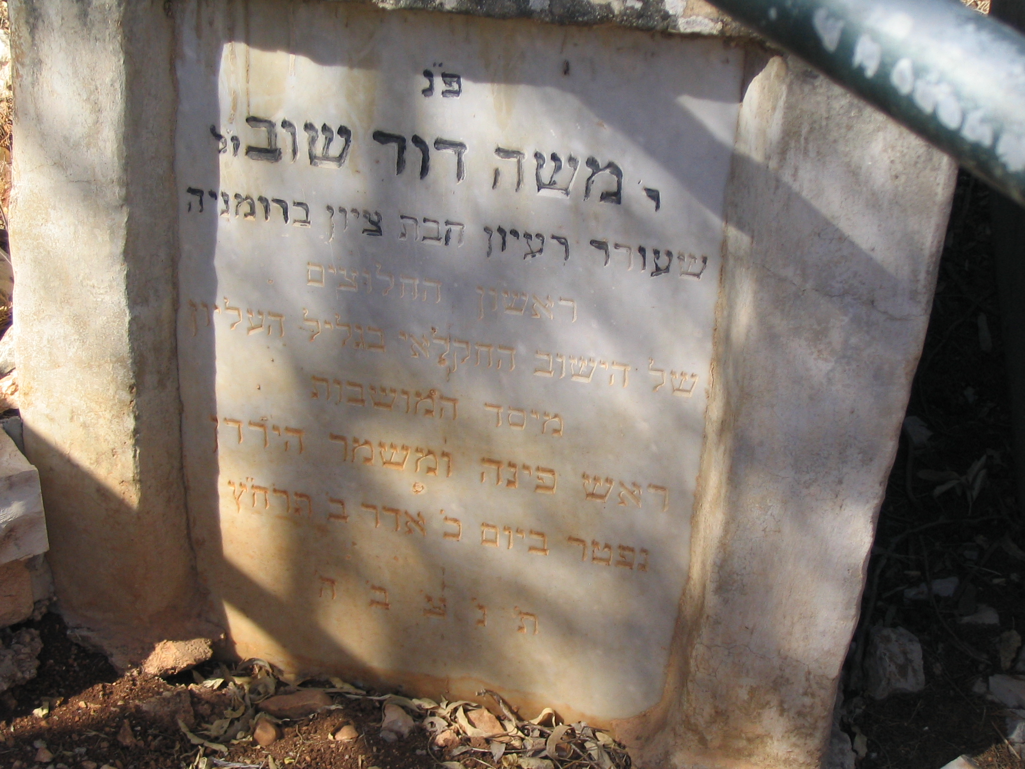 Moshe David Shuv tombston in Rosh Pina cemetiry